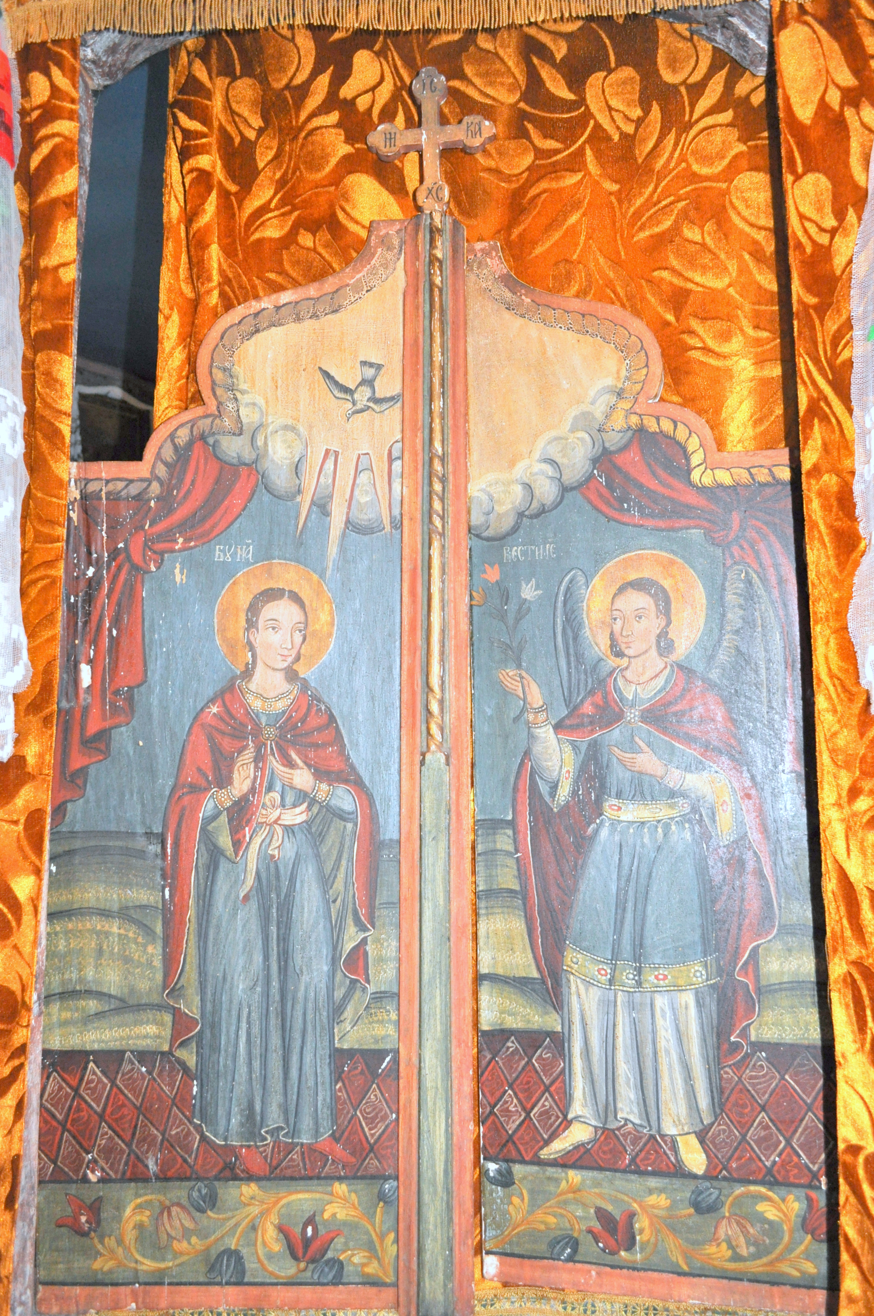 Wooden church in Micănești, Hunedoara county